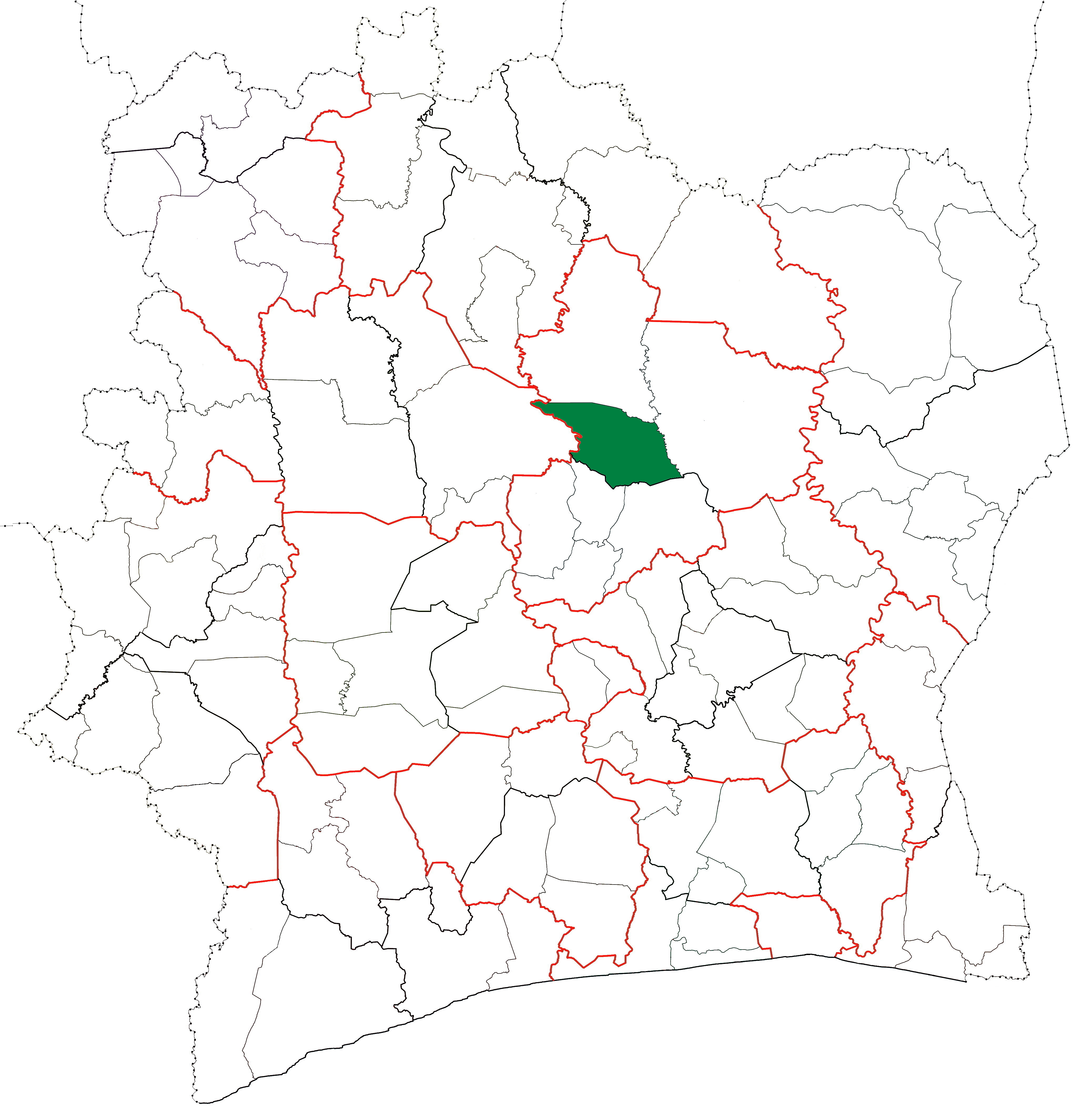 Locator map for Katiola Department in Côte d'Ivoire.